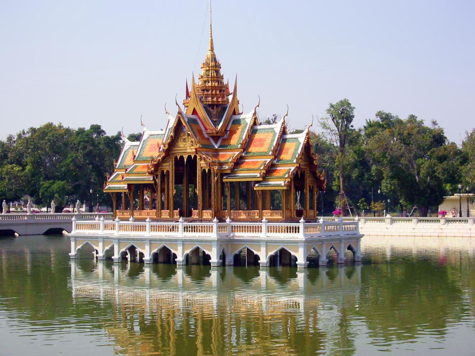 Edited version of Image:Bang Pa-In floating pavilion.jpg, q.v. for EXIF data.